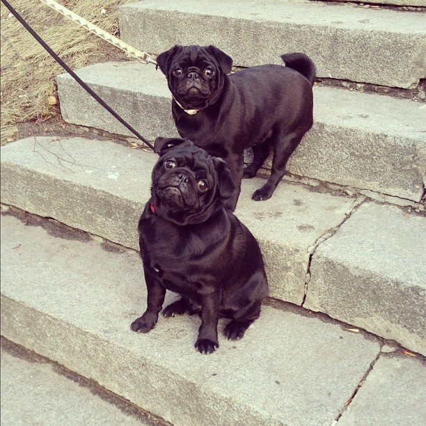 Black pugs Vader and Coco